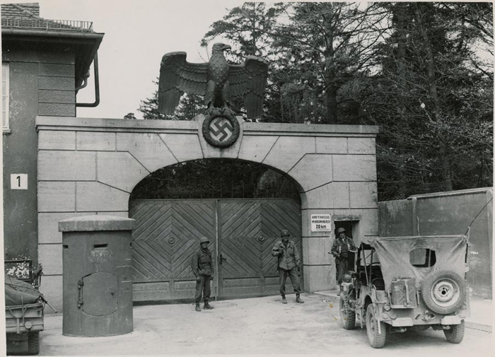 Gates at the main entrance to Dachau concentration camp, 1945